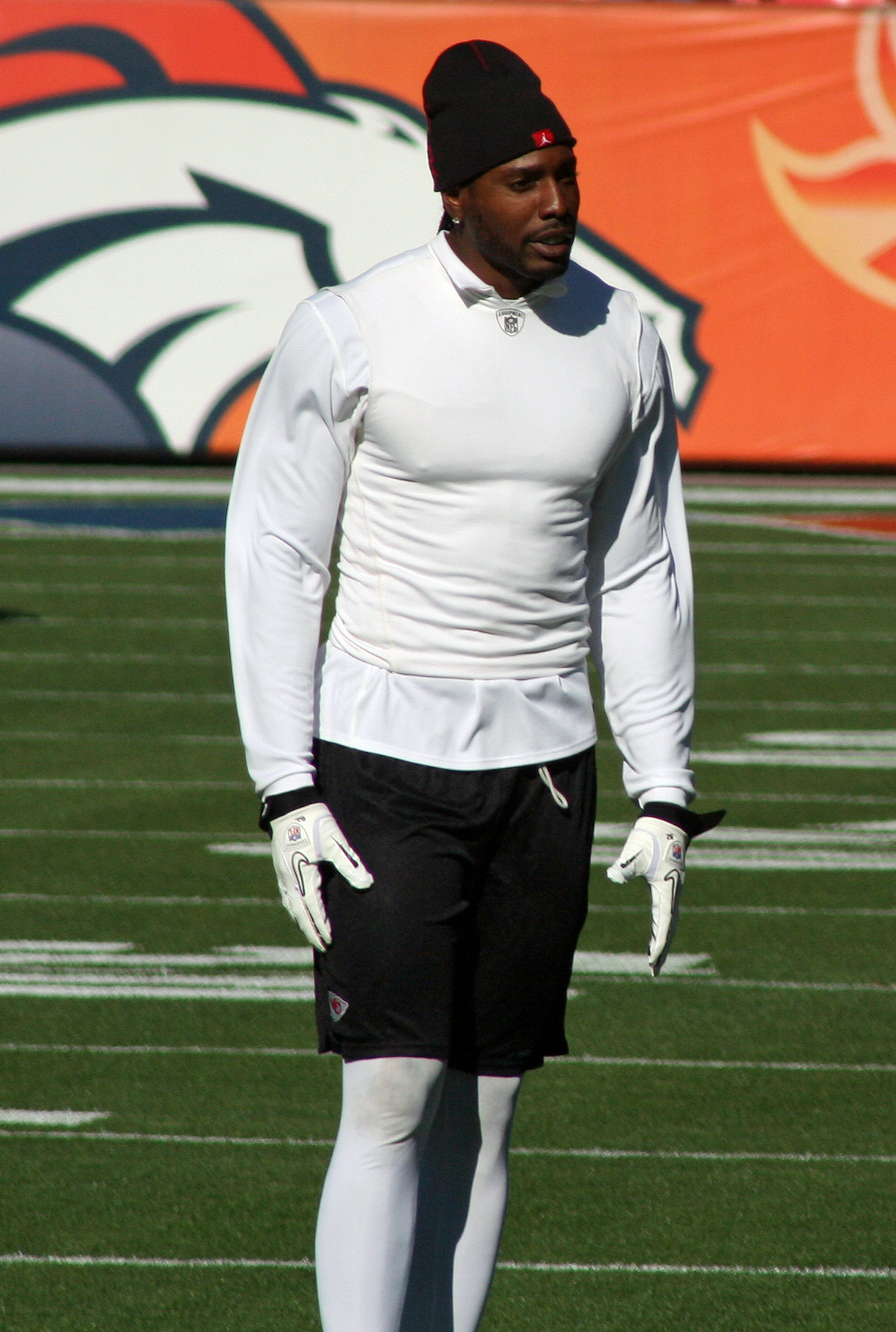 Dwayne Bowe, a player on the Kansas City Chiefs American football team.